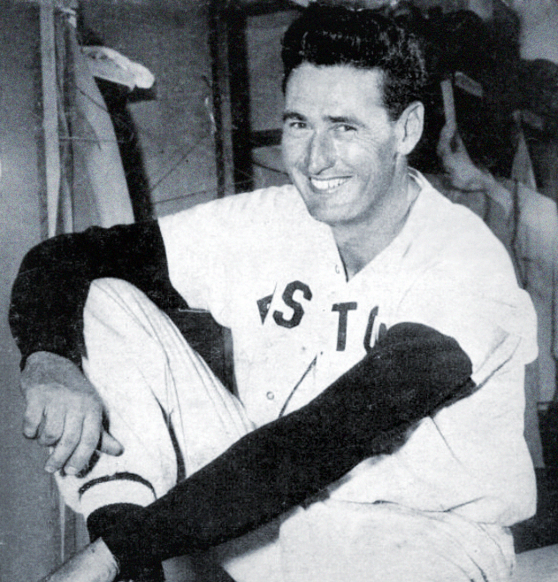 An image of Major League Baseball hall of famer Ted Williams.